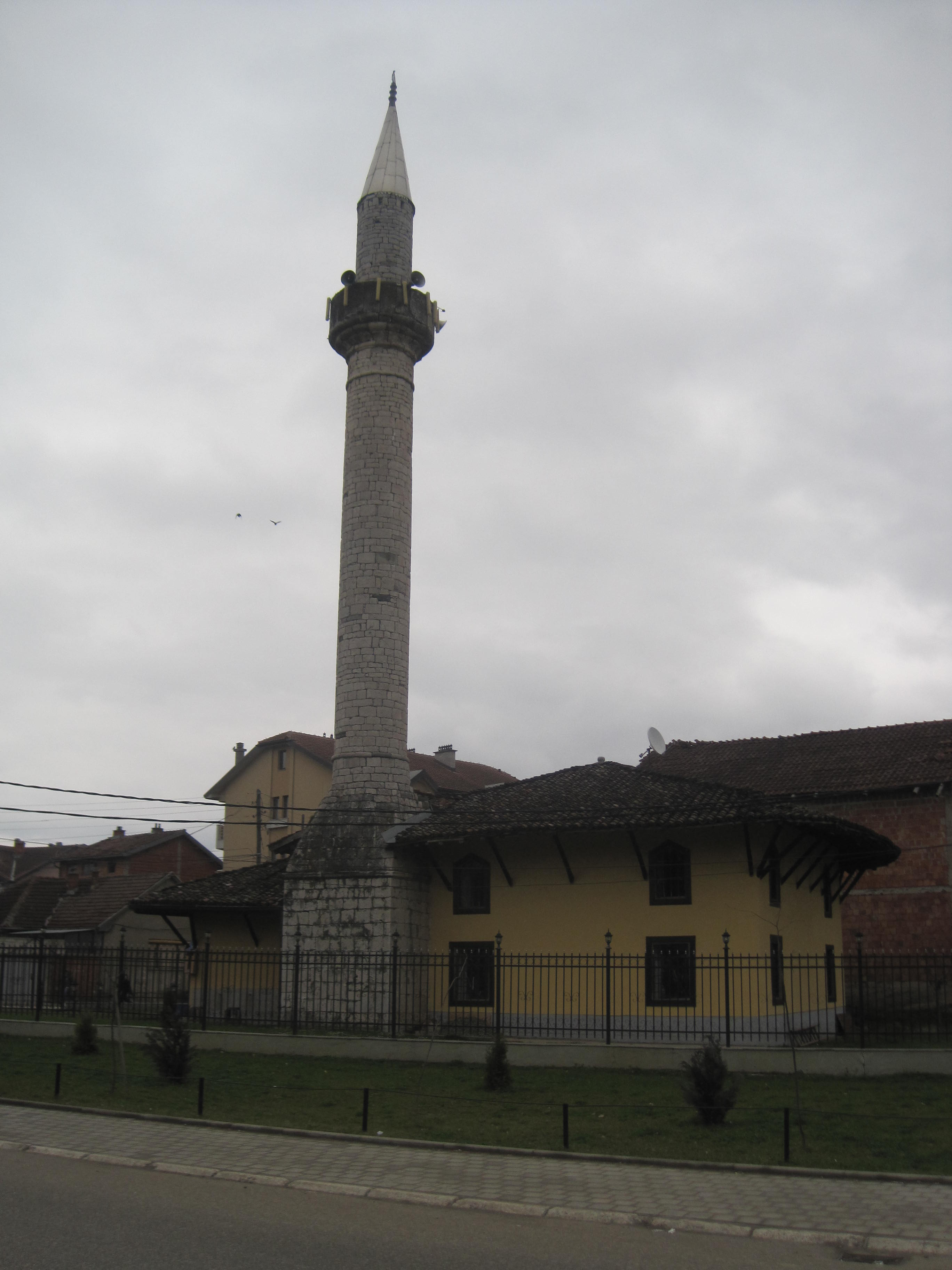 Xhamija e Kusarve. Washington Str. Đakovica, Kosovo